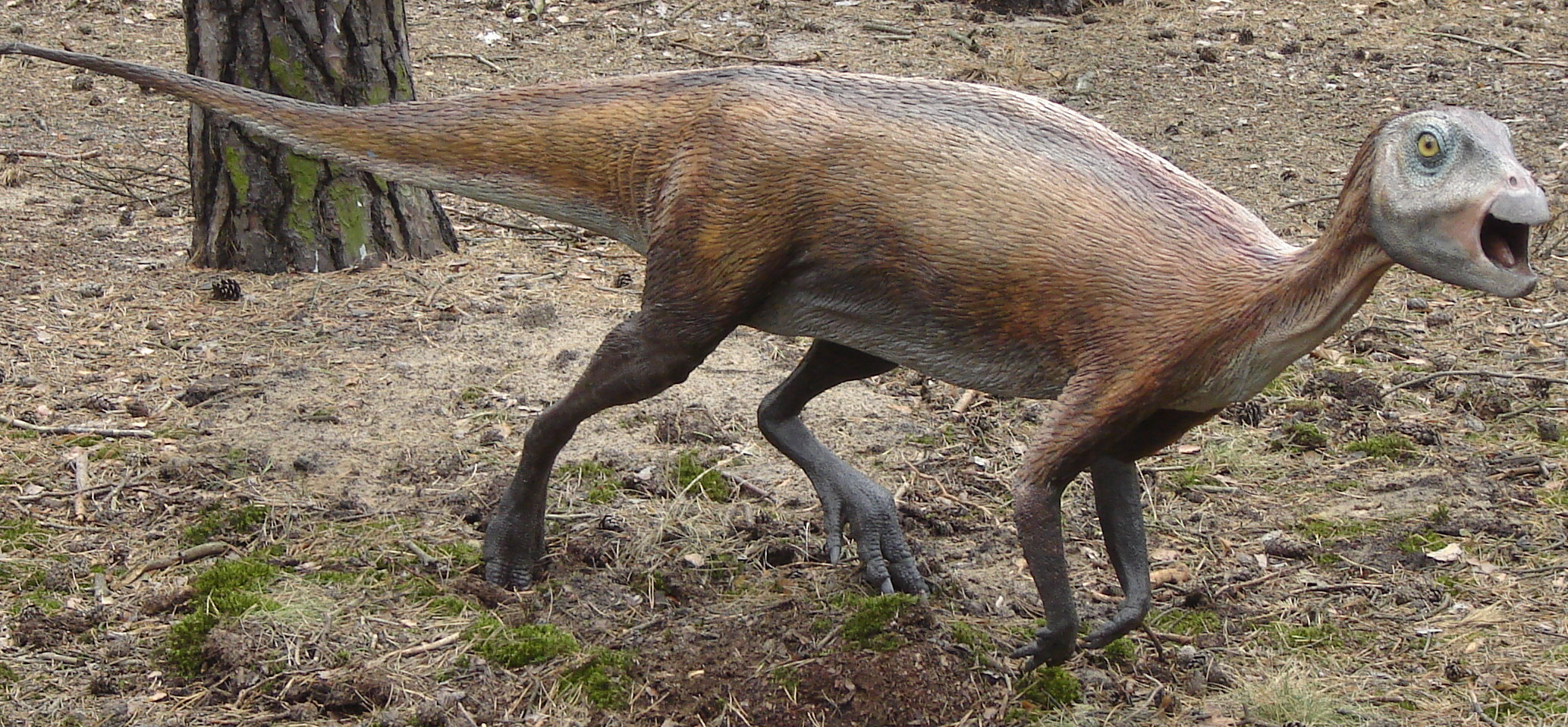 Model of Atlascopcosaurus in JuraPark, Solec Kujawski, Poland